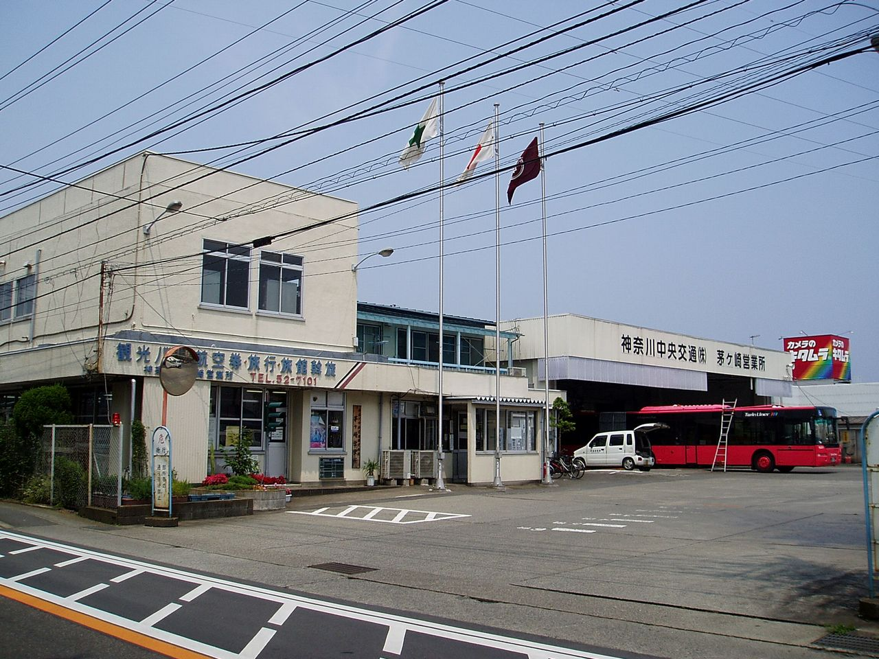 Kanagawa Chuo Kotsu Chigasaki Branch